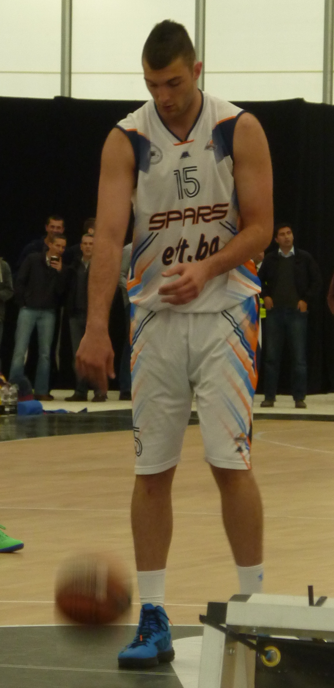 Bosnian and Serbian basketball player Đoko Šalić playing for OKK Spars Sarajevo at the Nike International Junior Tournament Finals in London (9-12 May 2013).